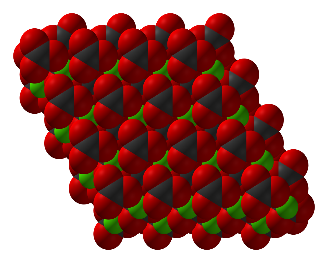 Space-filling model of part of the crystal structure of calcium carbonate, CaCO3. Structural data from J. Appl. Crystallogr. 2005, 38, 158-167.